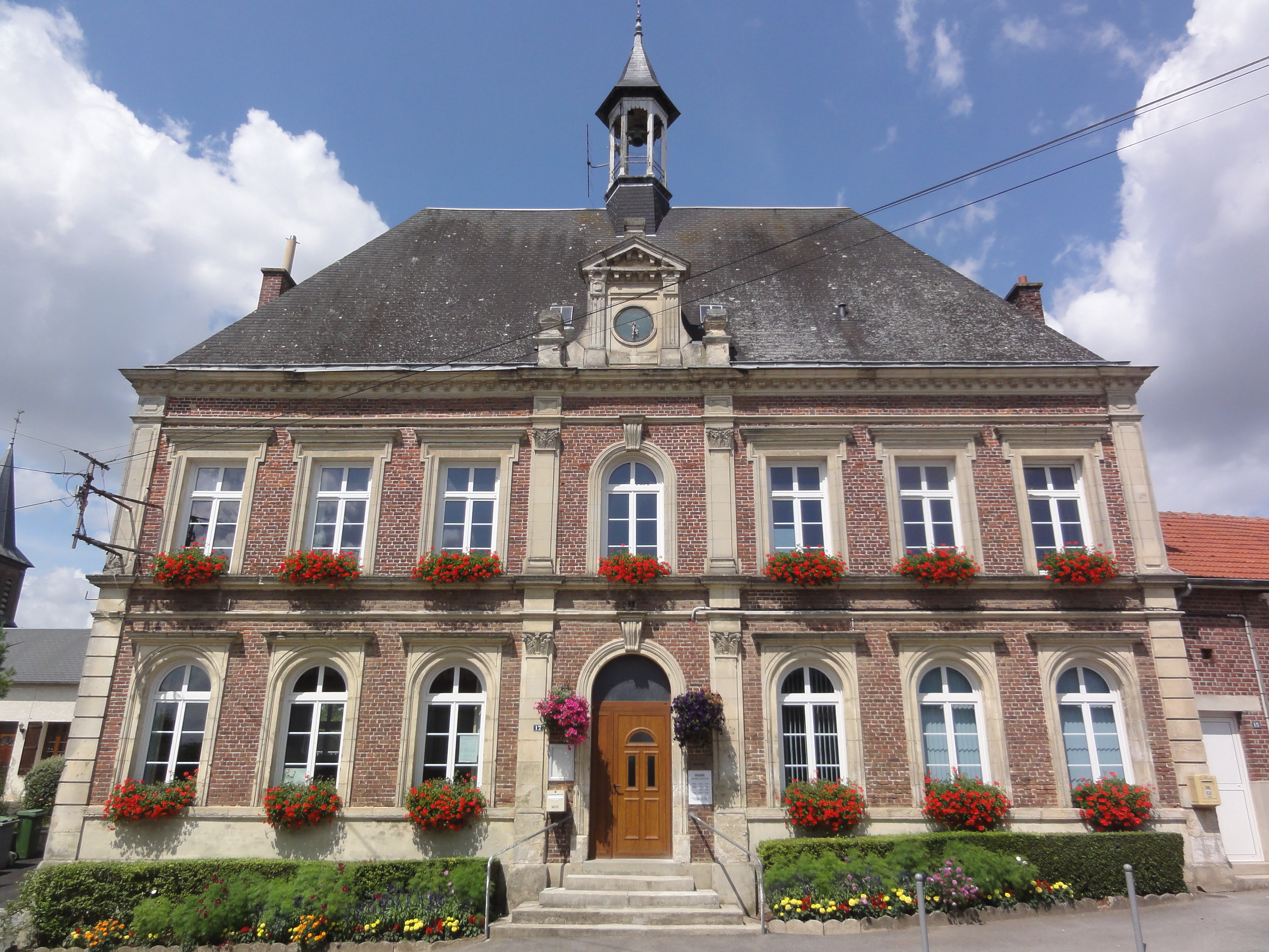 Béthancourt-en-Veaux (Aisne) mairie